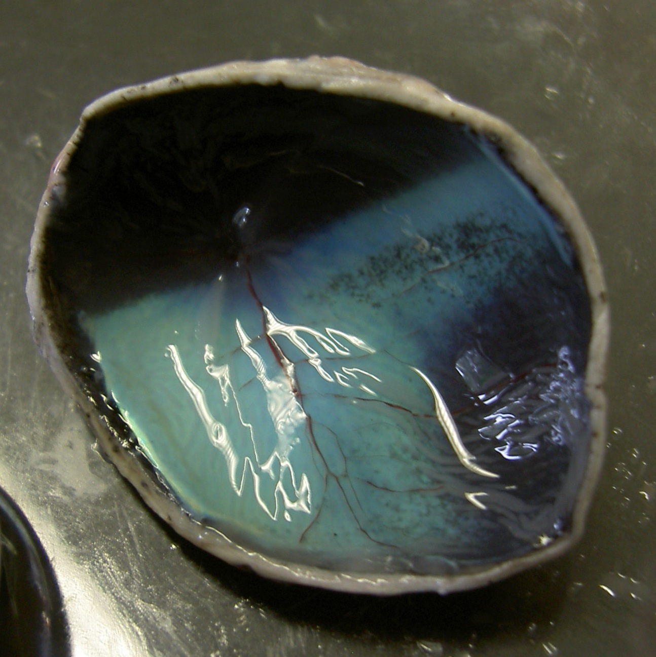 Calf eyeball from a dissection done at University of Pennsylvania on 2005 Oct 13. In this photo, the eye has just been cut along the meridian, and the retina is still in place in the posterior of the eye, covering the tapetum lucidum as a thin film. Permission is granted by Mark Fickett (the photographer and student/dissector) to use, modify, and distribute this image.